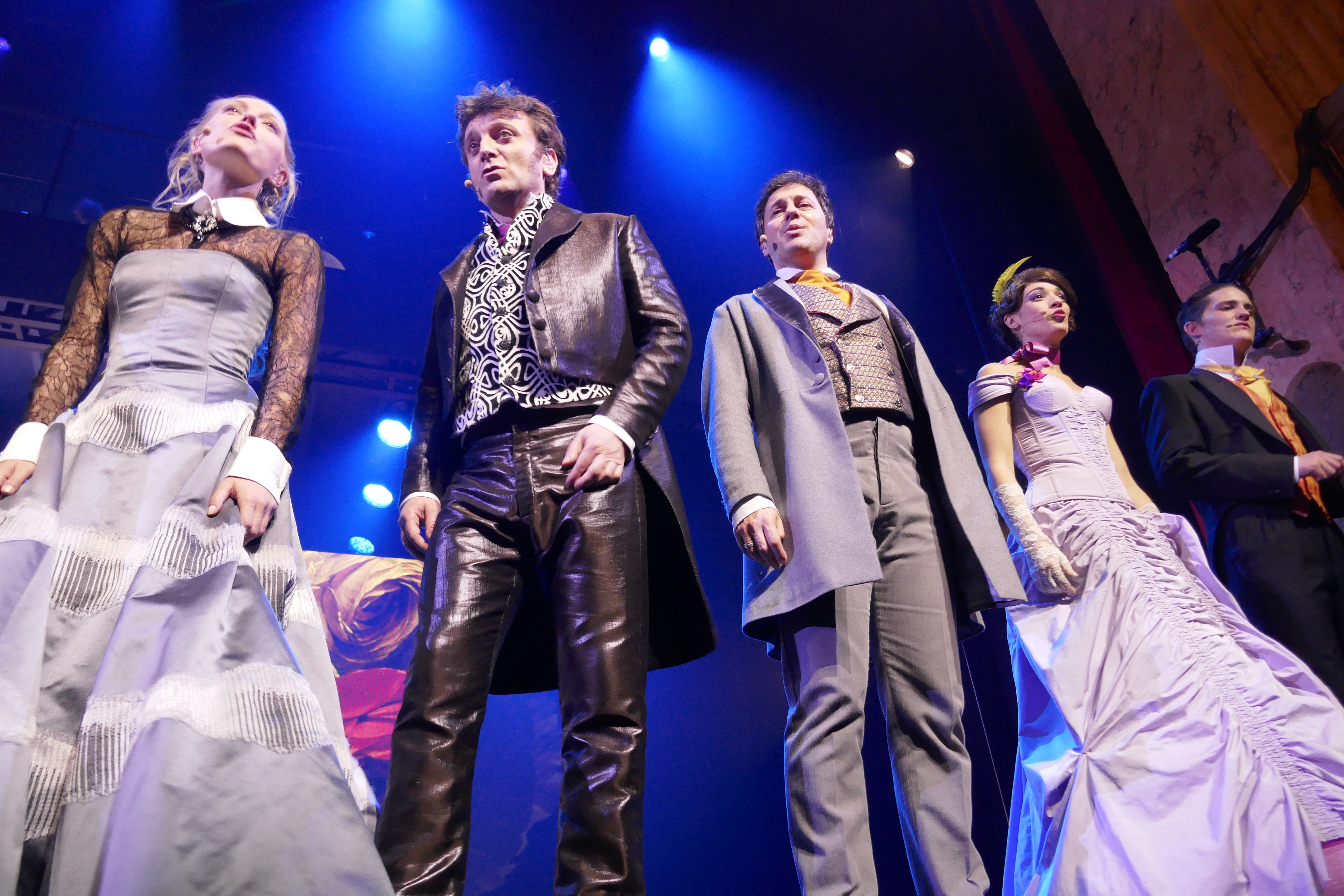 Le Rouge et le Noir musical troupe (2/2) Left to right : Julie Fournier, Michel Lerousseau, Philippe Escande, Noémie Garcia, Louis Michaut